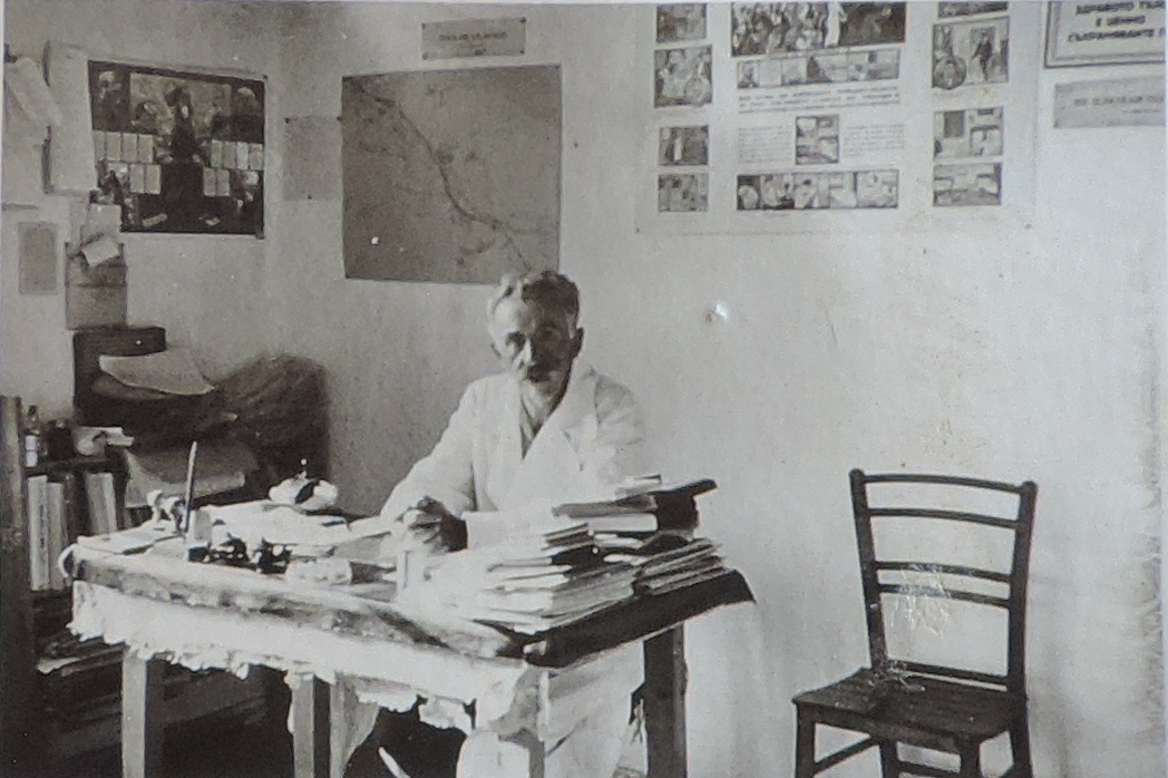 A photo album by doctors, paramedics and midwives at the Kyustendil Sanitary region in 1936. It was compiled by Dr. A. Ogoyski. Handed to His Royal Highness Simeon Knyaz Tarnovski.